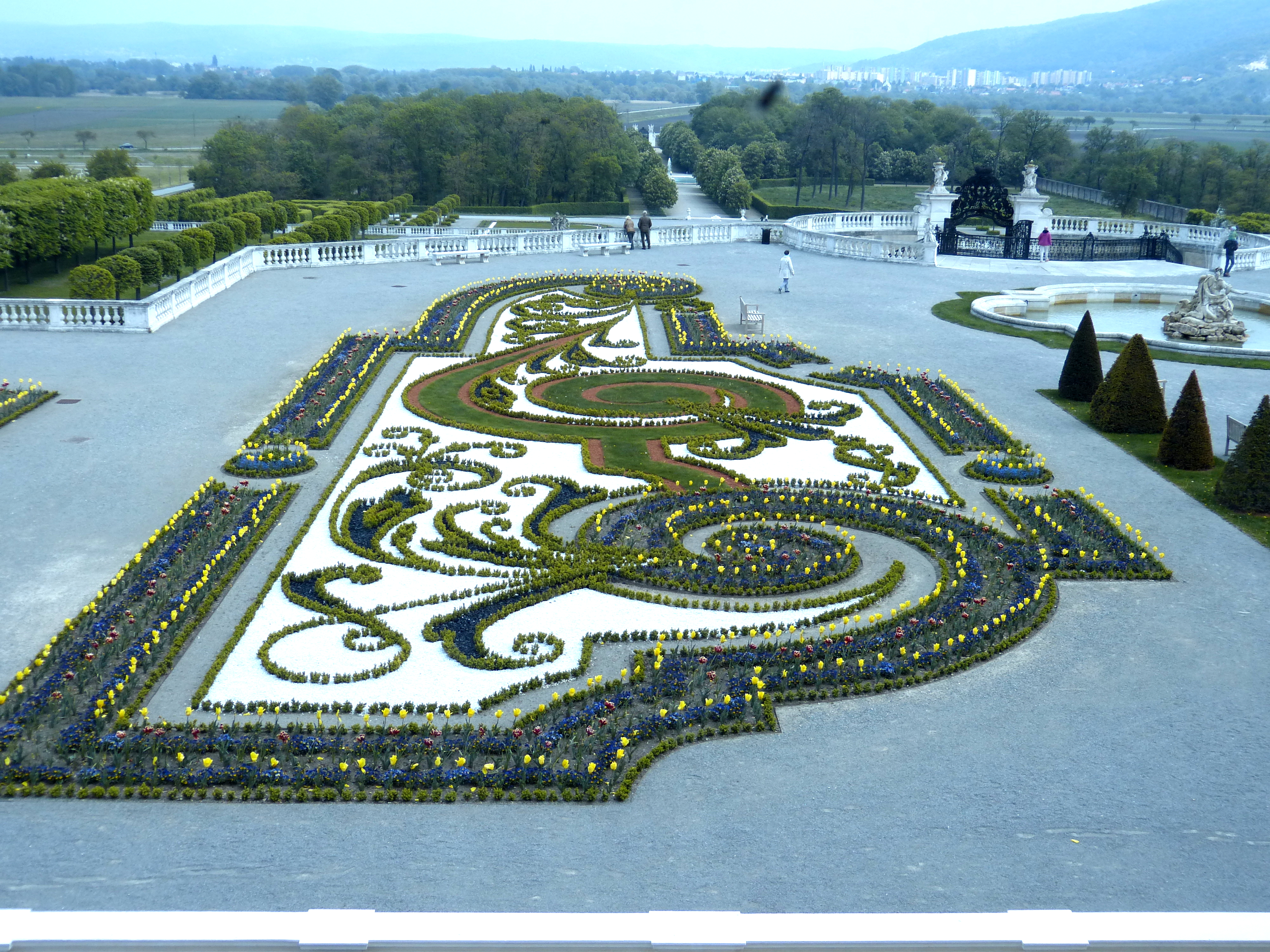 Schloss Hof ( Lower Austria ). Third garden terrace: Parterre de broderie.